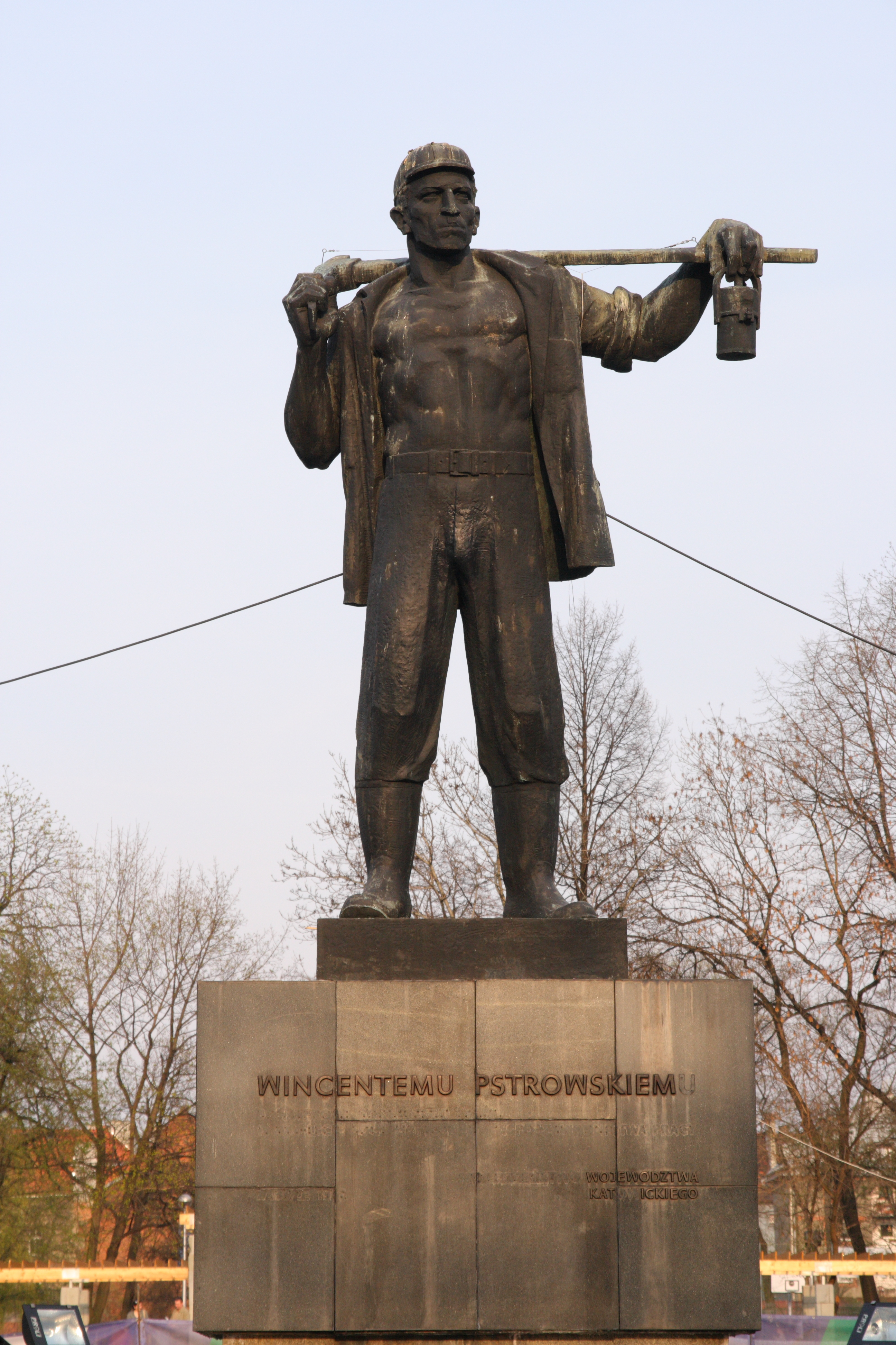 Monument of Wincenty Pstrowski in Zabrze (Poland).